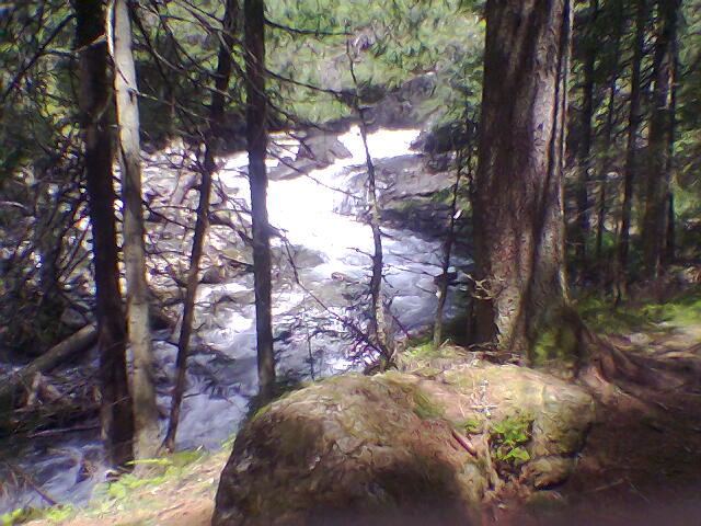 Talbach Schladming